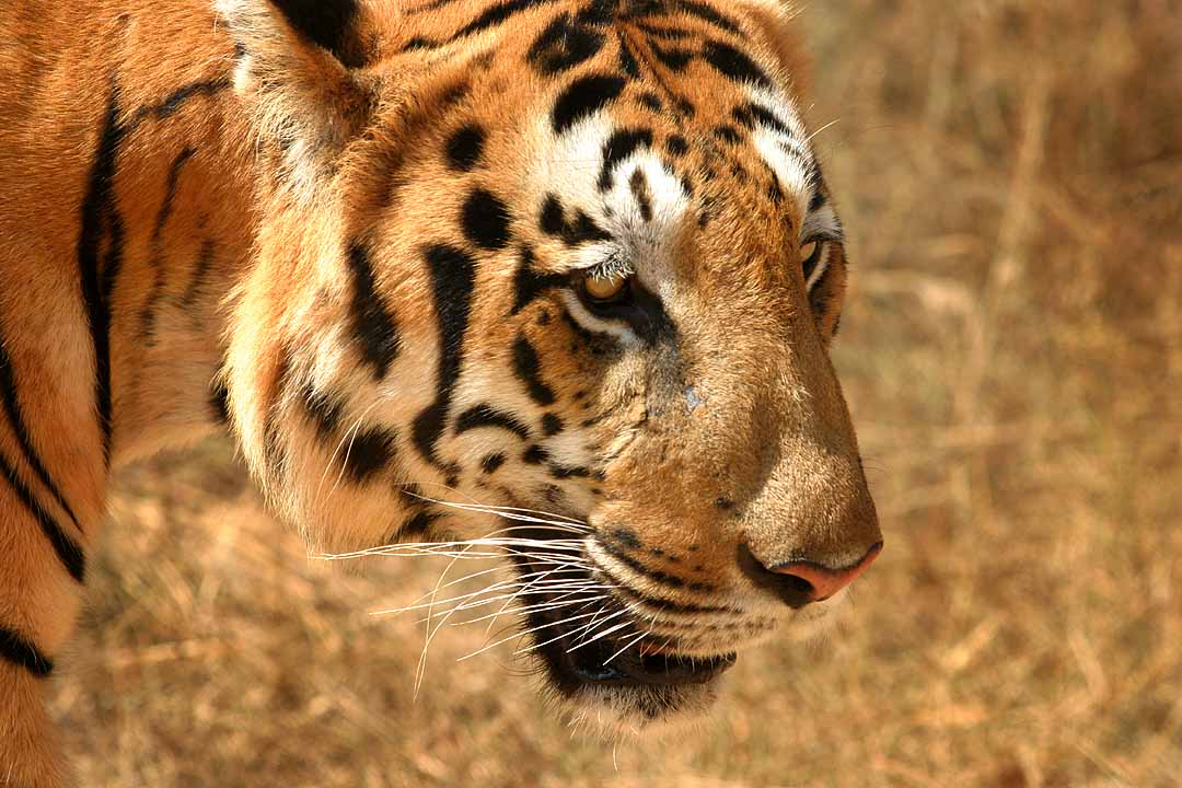 Tiger in South India